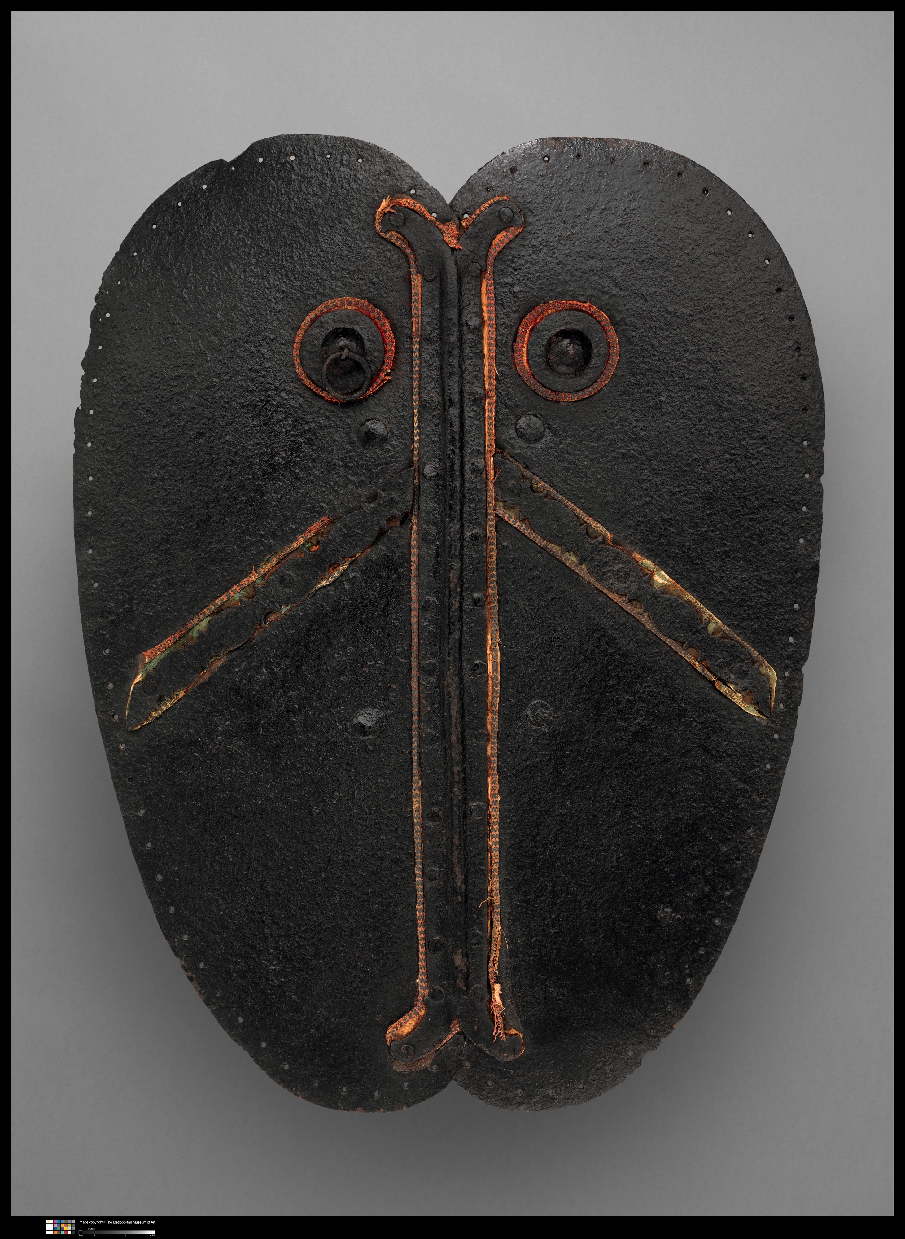 Spanish; Shield (Adarga); Shields